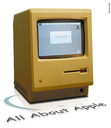 Macintosh 128K front.